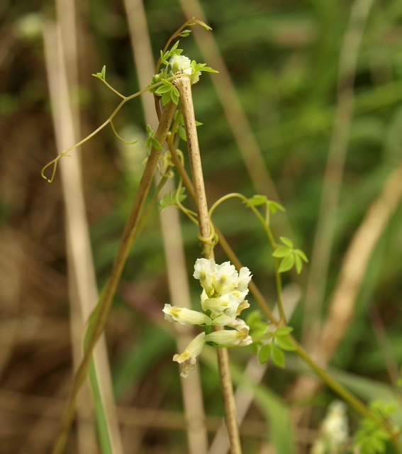 Climbing Corydalis A delicate little climbing plant, Ceratocapnos claviculata (formerly Corydalis claviculata) is growing here in a damp area of tussocky moor and woodland near New Waste. In 1874, W. E. HART wrote in "Nature": "A sprig placed in a glass of water and out of the way of insects continues to grow and to bear flowers and fruit with nearly as much regularity as if still rooted to its native bank. The flowers do not gape spontaneously; and, as most of the older ones that I have examined in a state of nature have their lips depressed, I think it certain evidence of the agency of insects, though I have not yet been so fortunate as to witness their operations."